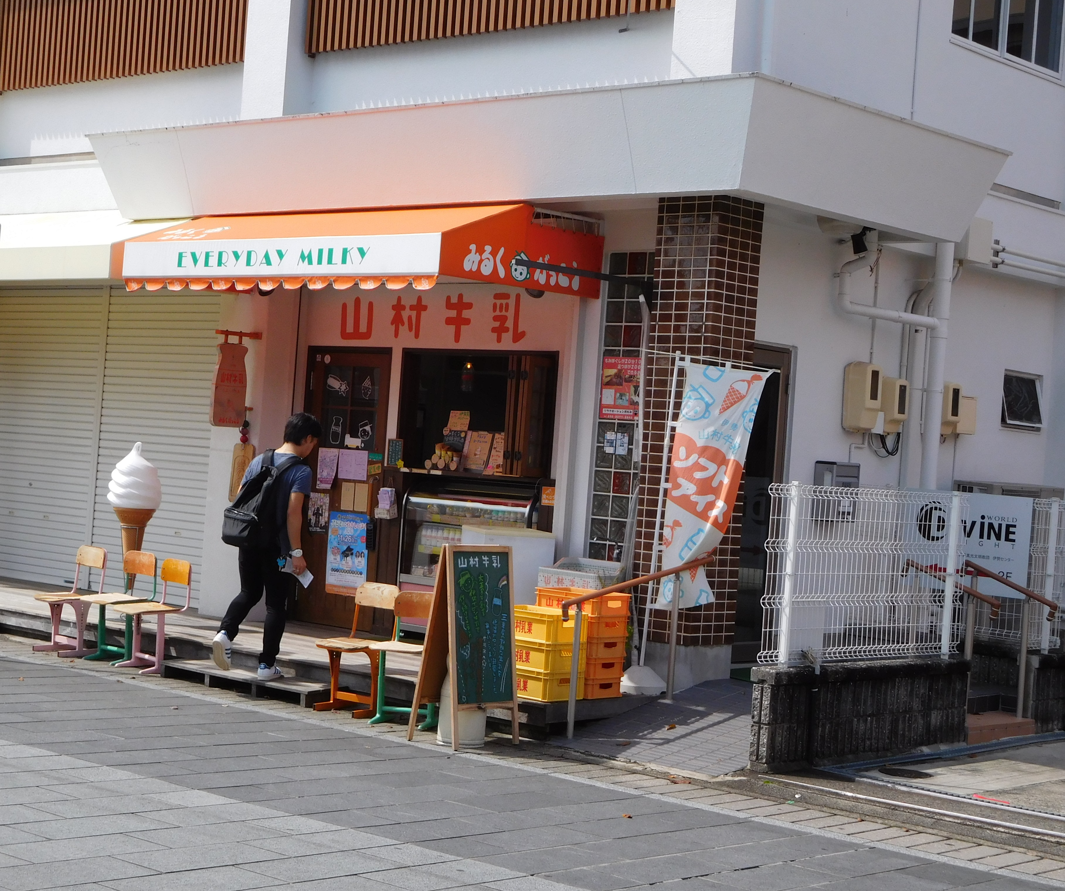 This is a roadside pastry shop in Ise, Mie, Japan. This shop is called "Yamamura Milk School".